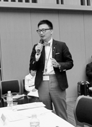 Yasuharu Ishikawa, Member of the Liaison Conference for the Promotion of Gender Equality, Cabinet Office, talked at a meeting at the Central Government Building No.8 in Chiyoda Ward, Tōkyō Metropolis on October 3, 2014.